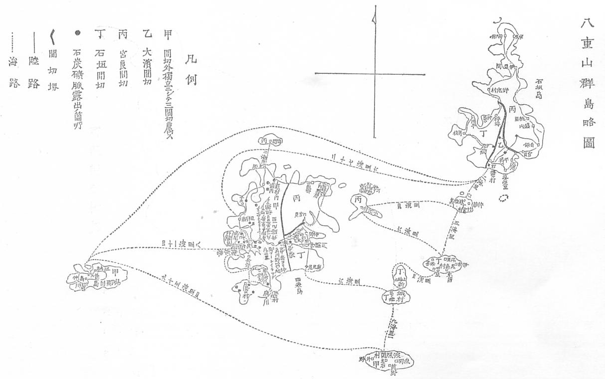 Map of Yaeyama Islands, created before 1915.